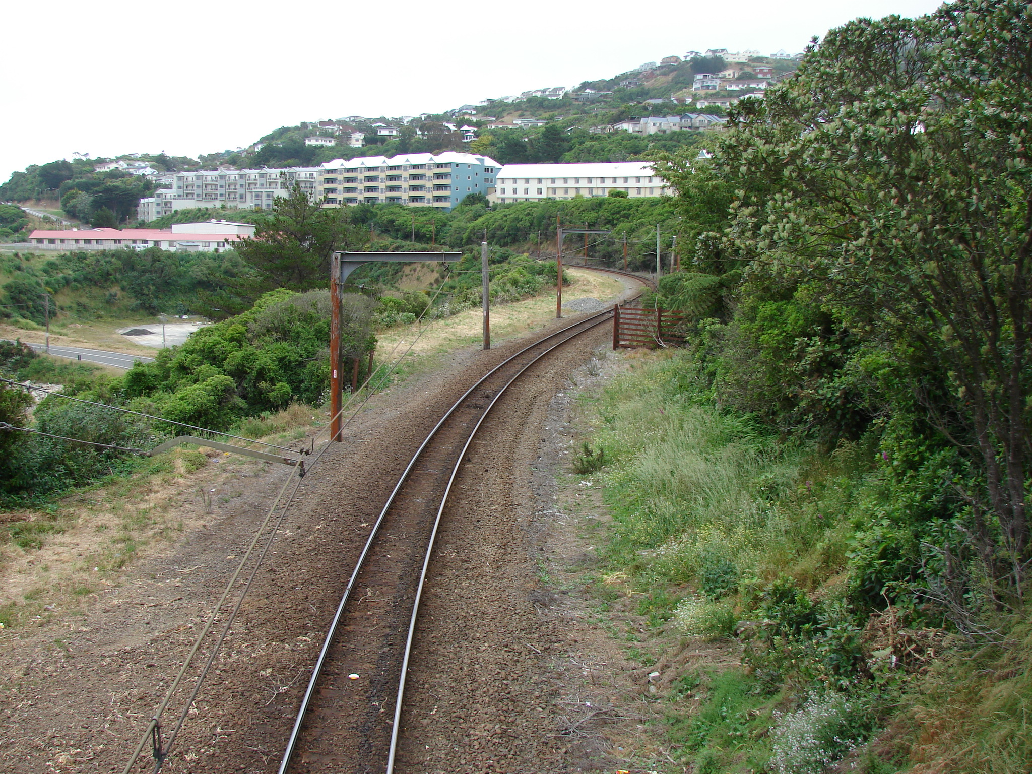 Looking out over the area to the south of Raroa railway station where the stockyards and sidings used to be. Photographed by Matthew25187 on 2007-12-17.